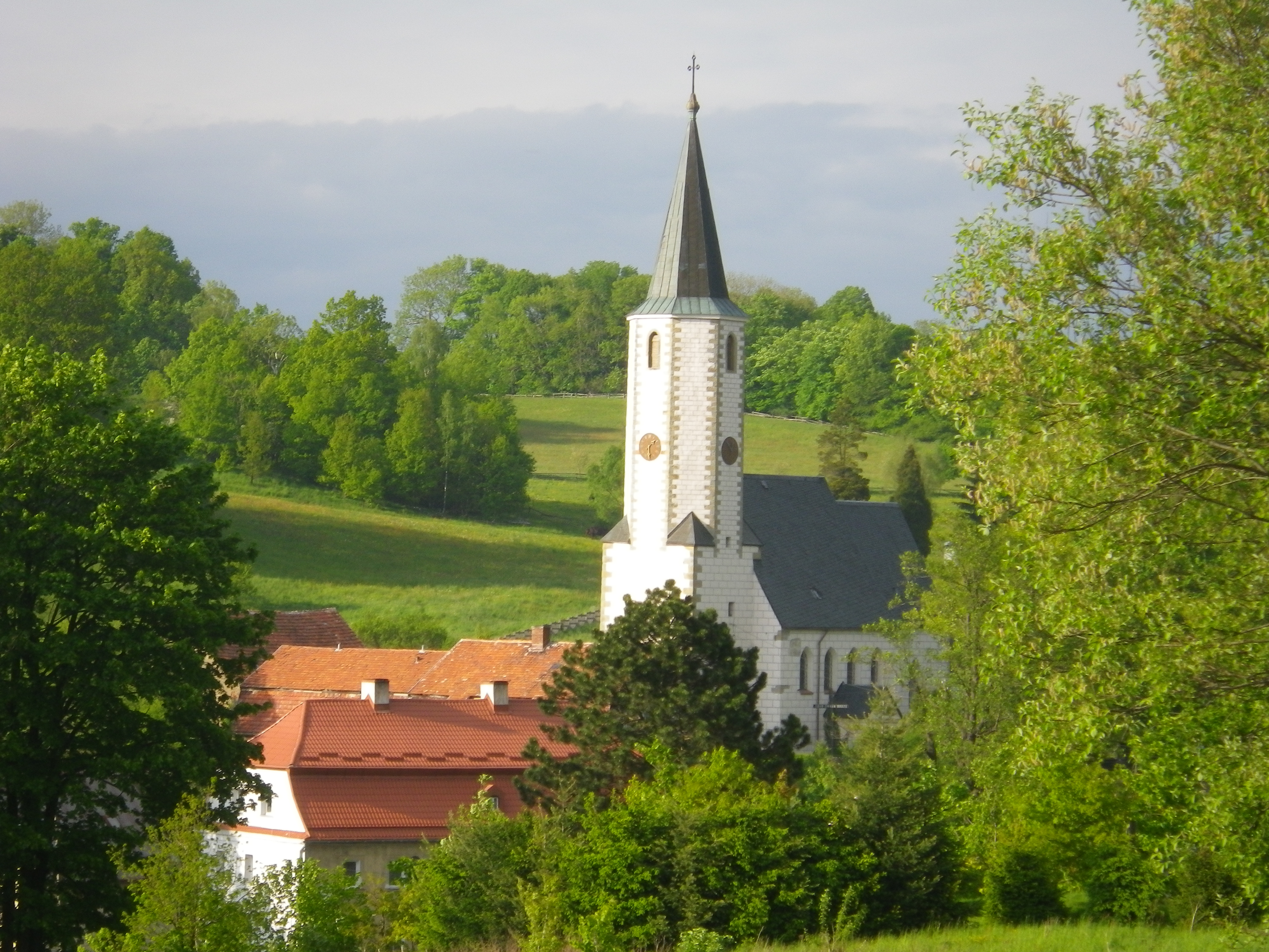 Church of Saint Augustin in Ciechanowice (Poland) seen from a train